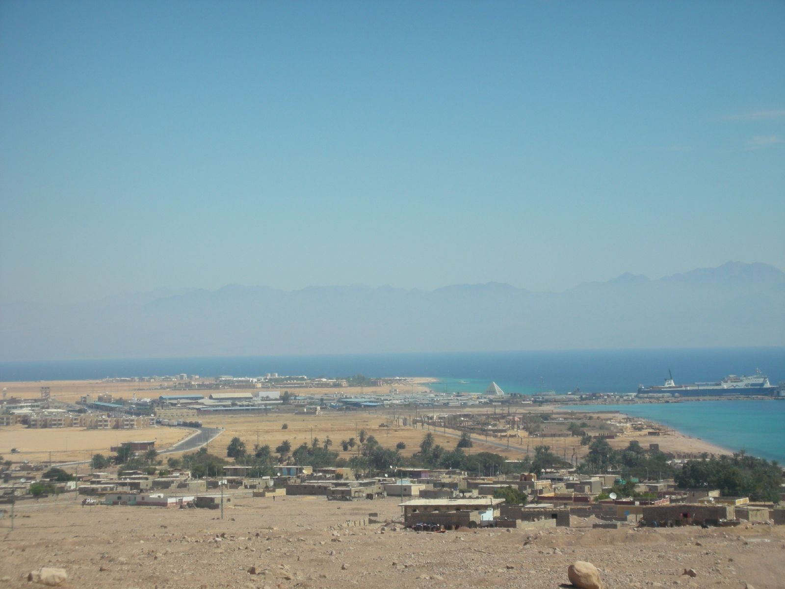 Port of Nuweiba